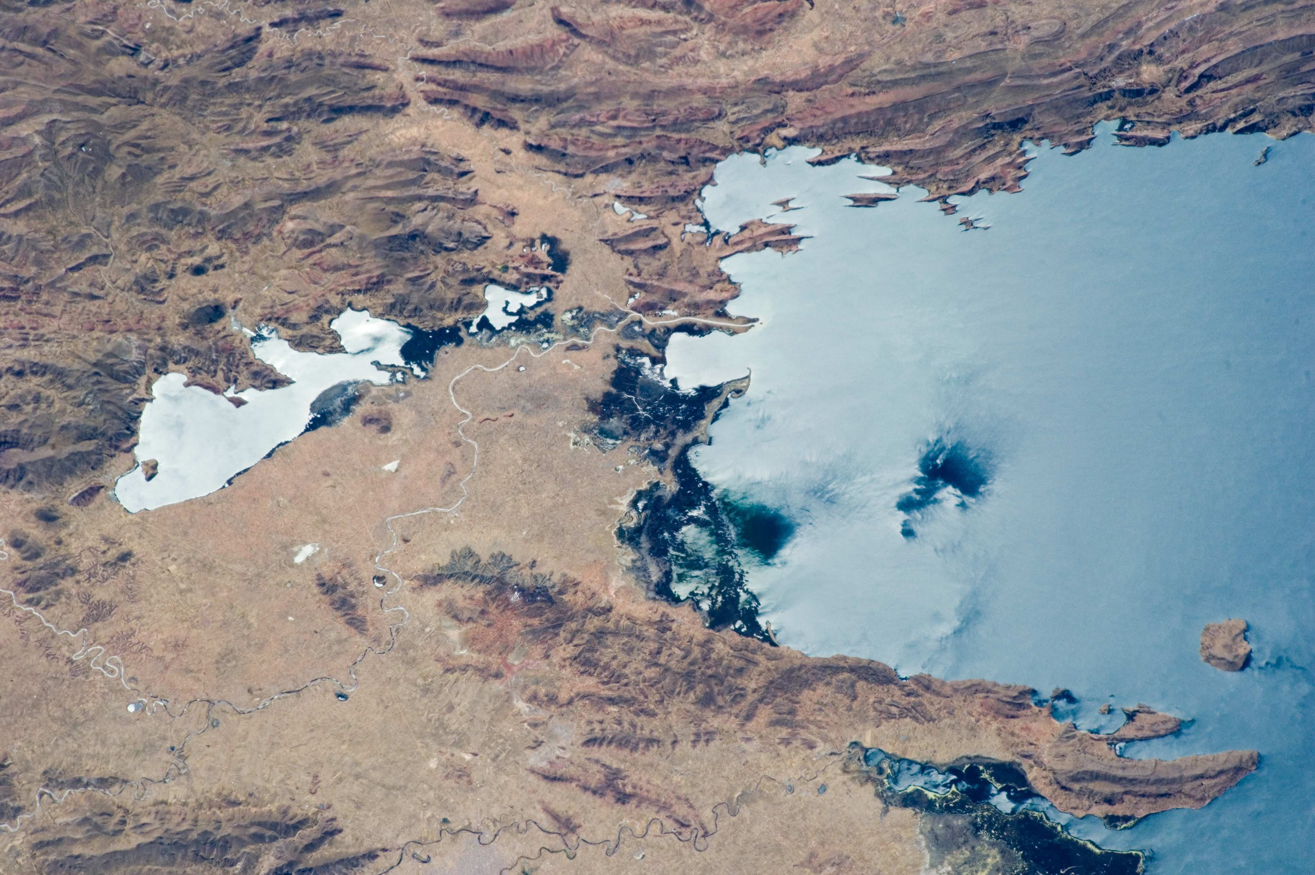 PERU, NORTHWESTERN LAKE TITICACA, GLINT ISLETS, DES., WETLANDS, LAKES, RAMIS R.